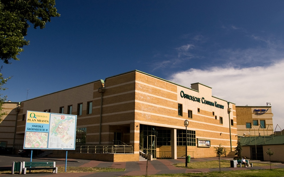 City of Ostroleka (Poland), the culture centre complex.